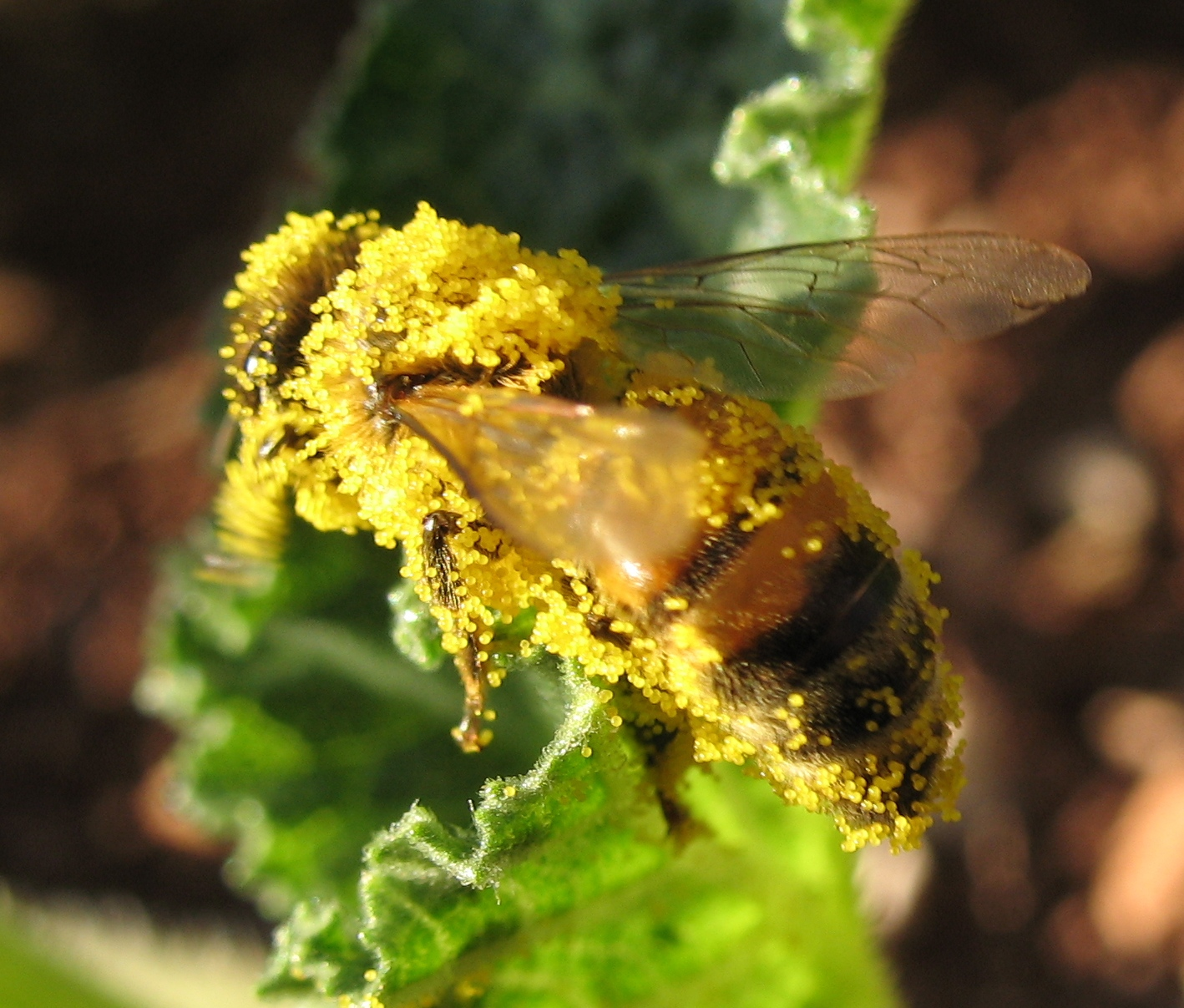 A bee loaded with pumpkin flower pollen